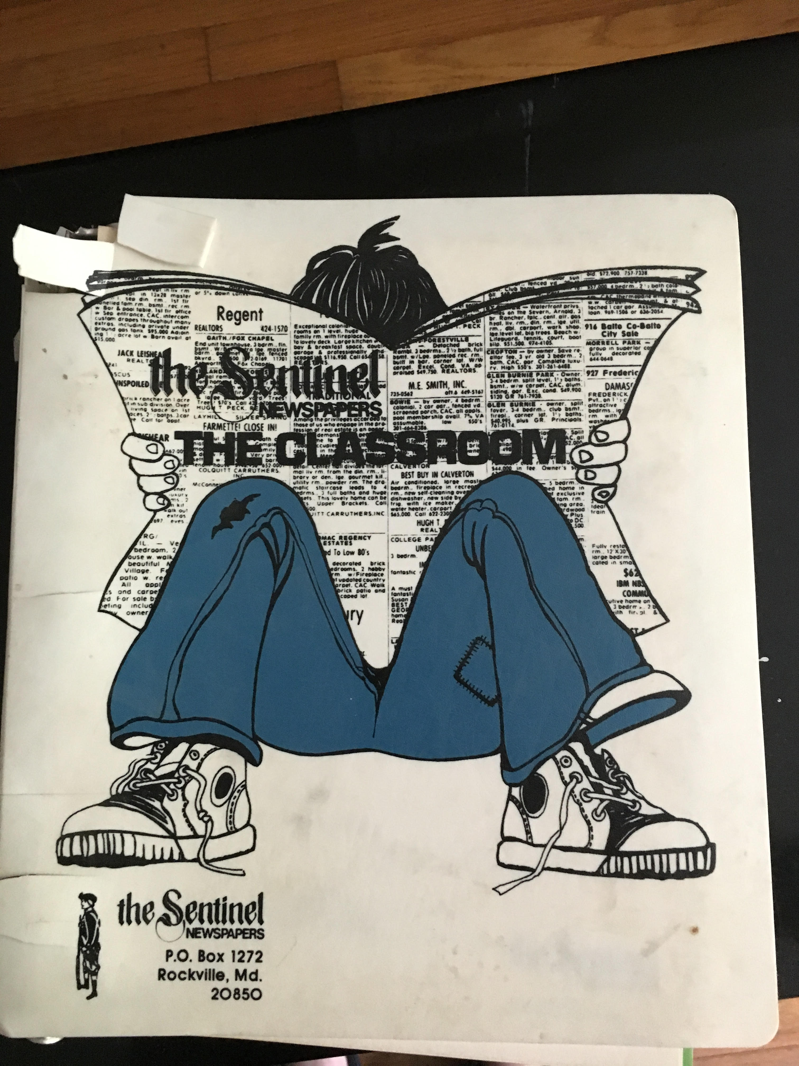 The Sentinel Newspapers in the Classroom was a guide published in 1977. Author included Joyce B. Siegel